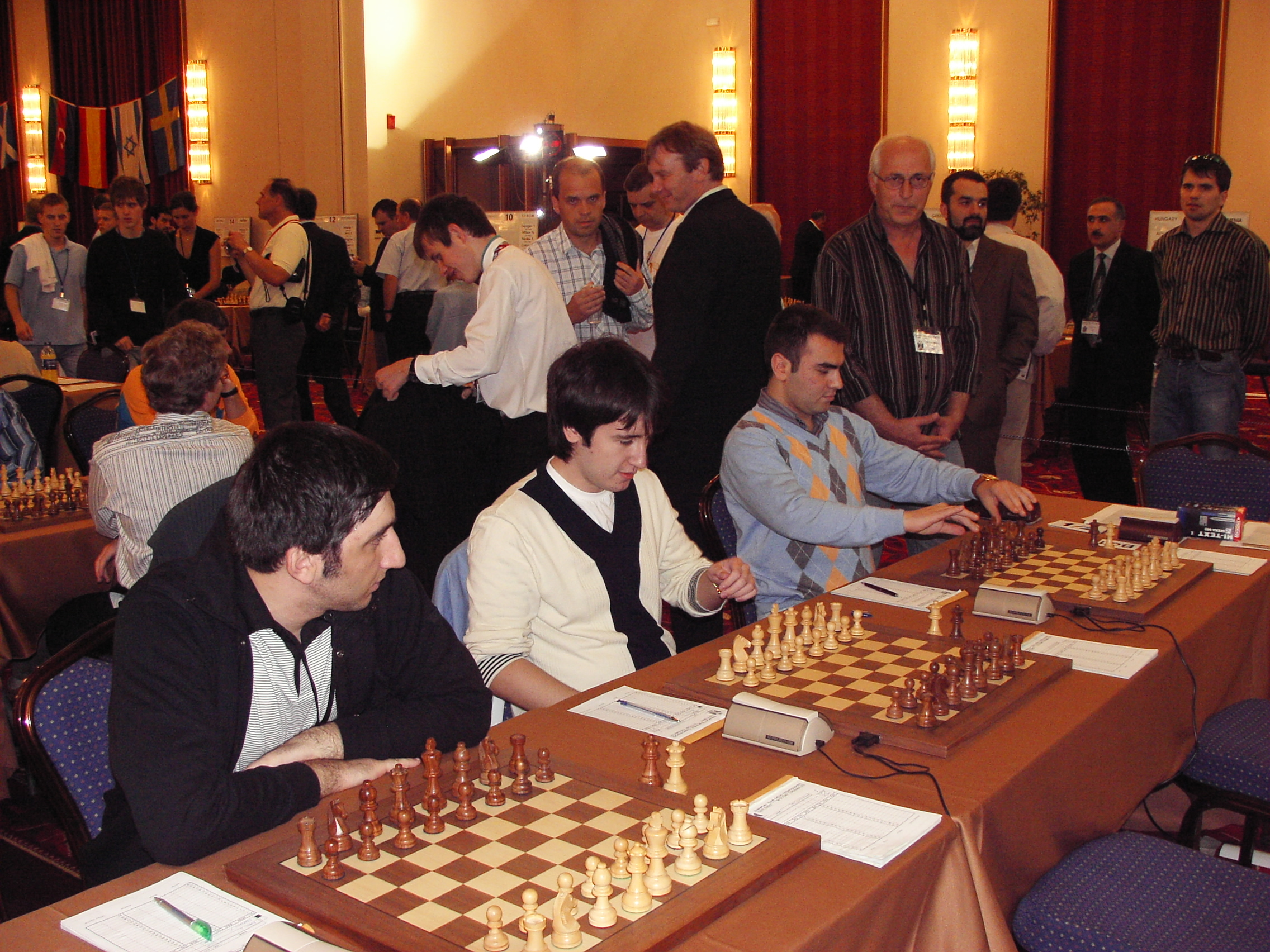 Azerbaijani Grandmasters Vugar Gashimov, Teimour Radjabov and Shakhriyar Mamedyarov at EuroChess 2007.